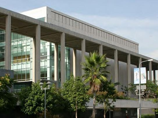 Ahmanson Theatre at Music Center in Downtown Los Angeles